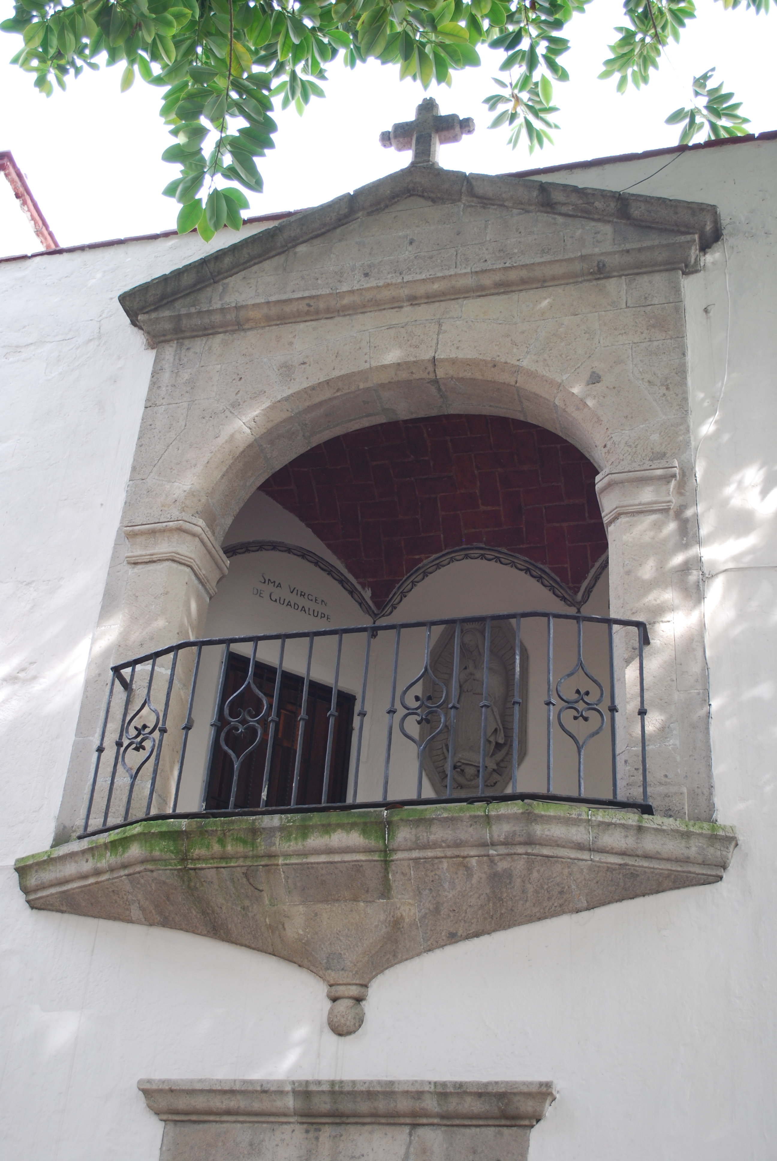 Open chapel at the Santa Maria de la Natividad de Aztacalco in La Romita section of Colonia Roma, Mexico City